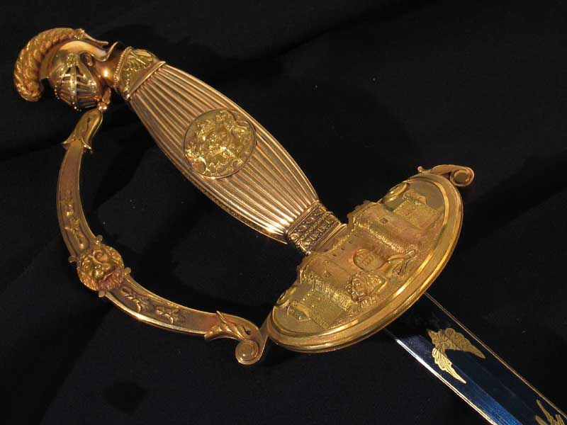 Honorary sabre with golden handle, decorated with a feathered helmet, a lion’s head, and a shield, held up by two lions, with a two-headed bird on it, and a crown on top of it. At the bottom of the handle a citadel with a lion in front of the gate is depicted. The blade of the sword is partially painted blue, with decorative cut-outs, and adorned with gold paint and engraved. The sabre is stored in a leather sheath with gold decoration to protect both ends. The point merges into an asymmetrical harp. There is an inscription on the other end which reads: Antwerpen (Antwerp).